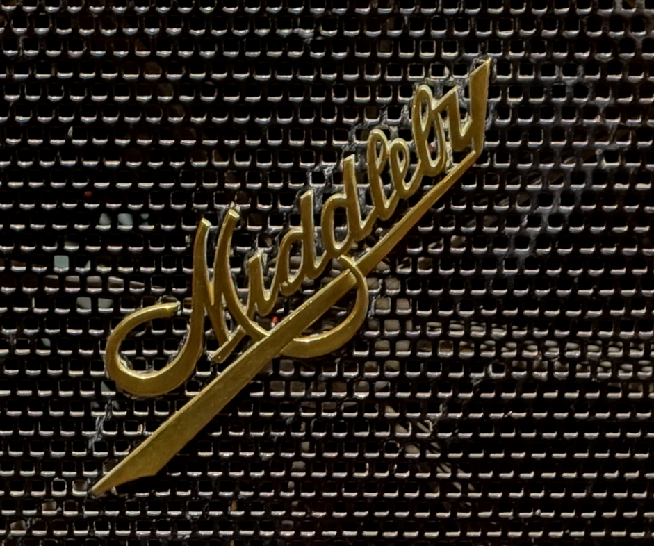 Exhibit in the in the Luray Caverns Car and Carriage Museum, Lurary, Virginia, USA.